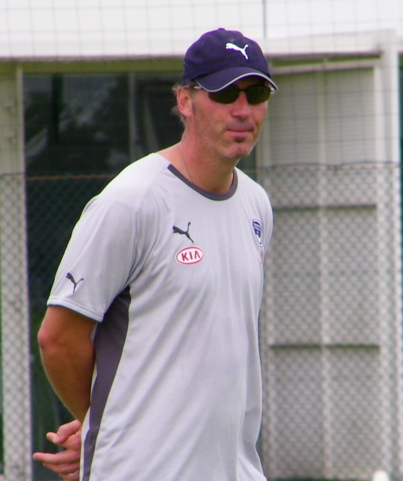 Laurent Blanc